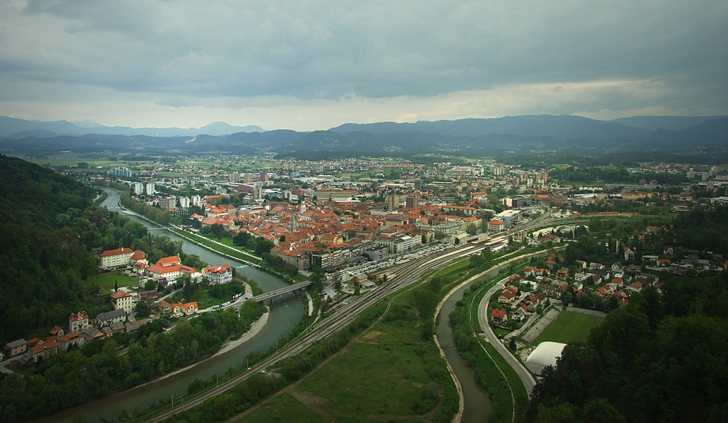 Celje, Slovenia